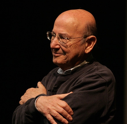 (A crop of a picture uploaded in the past.)